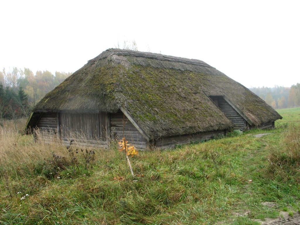 Traditionel architektur of Belarus